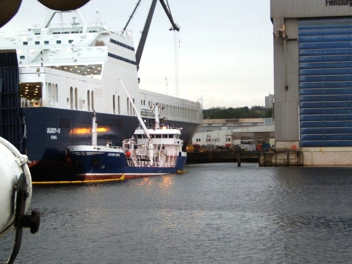 The Turkish ferry ULUSOY 14 takes heavy oil from a bunker boat. - The newship is located at the outfitting pier of the Flensburger shipyard.